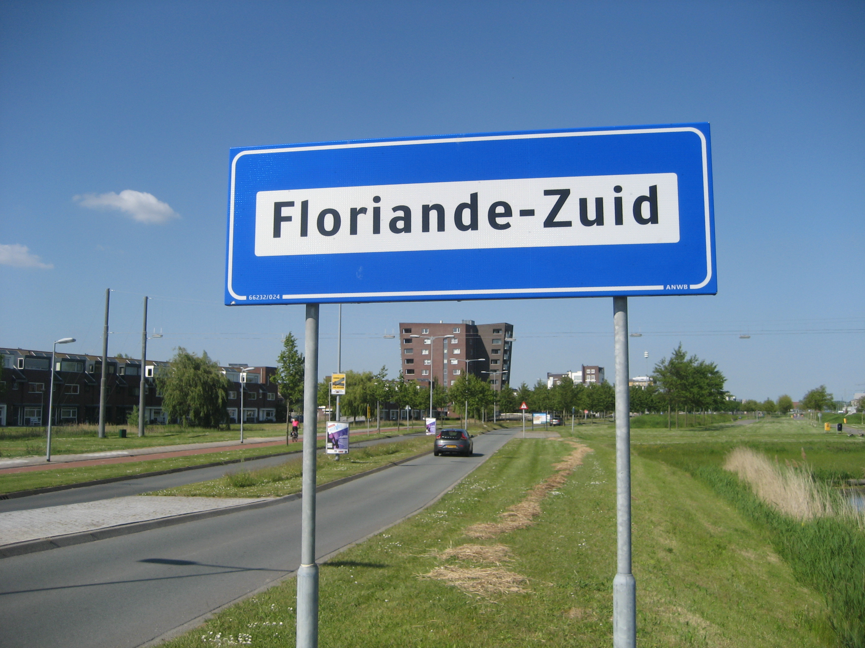 Floriande-Zuid in Hoofddorp (The Netherlands)